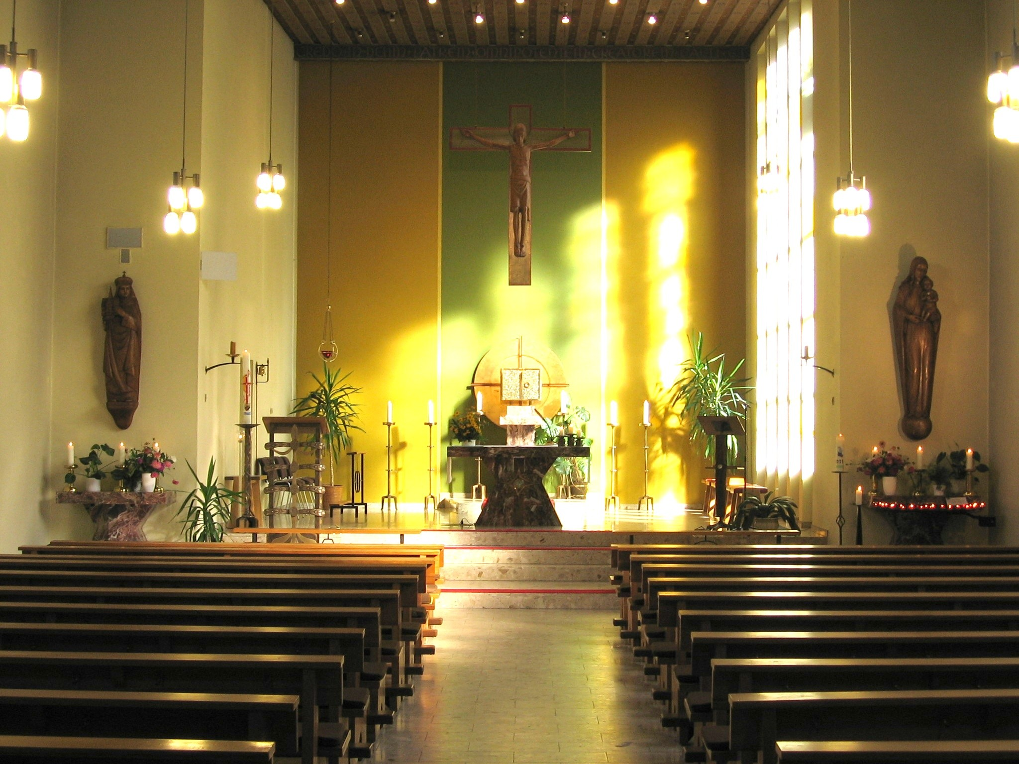 Interior of St. Maria Parish Church, Sehnde